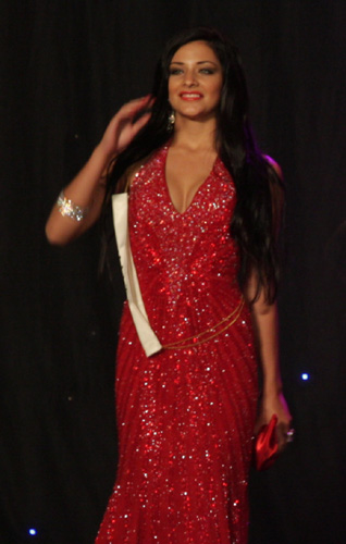 Miss Malta 2008 Martha Fenech during Miss World 08